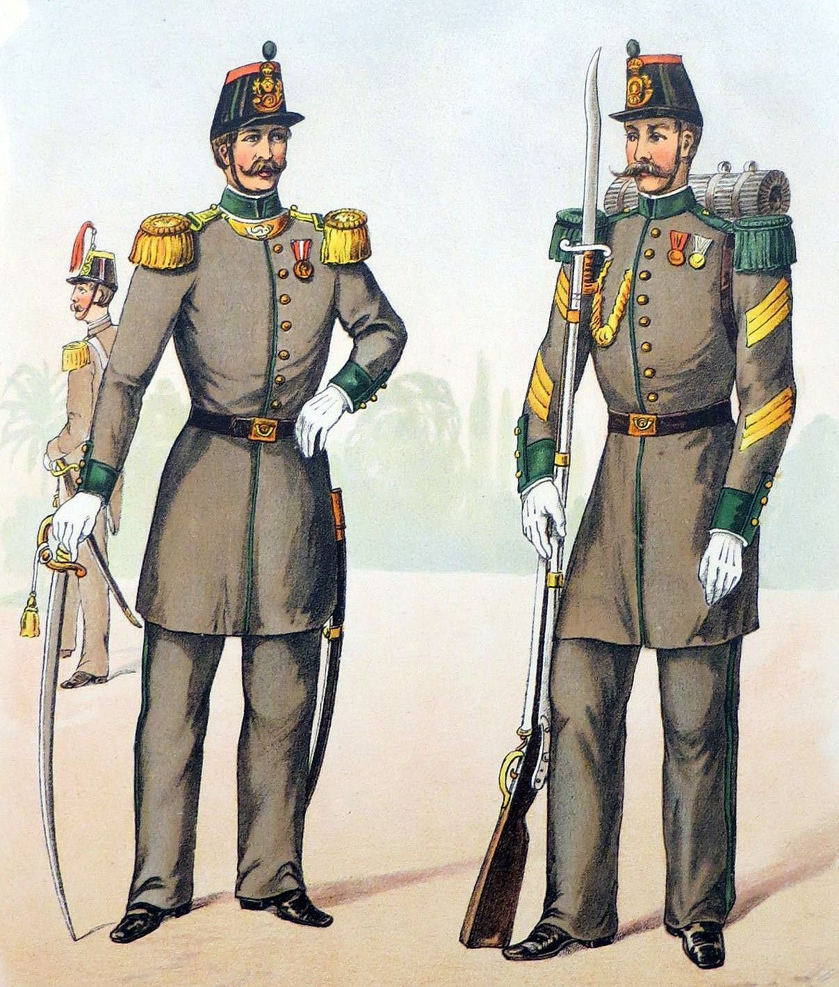 Uniform of the 1. & 2. Foreign Batallions in Naples 1860-1861 Foreground: Captain and Field Sergeant Background: Officer of the Foreign Artillery Battery 15